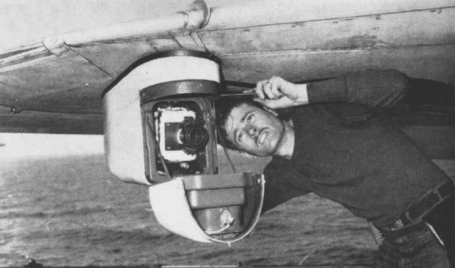 A strike camera mounted underneath the wing of a Douglas A-4 Skyhawk aboard the U.S. aircraft carrier USS Coral Sea (CVA-43). Original caption: "PH1 G.R. Johnson adjusts a camera pod on the wing o an A-4 Skyhawk on the Coral Sea."